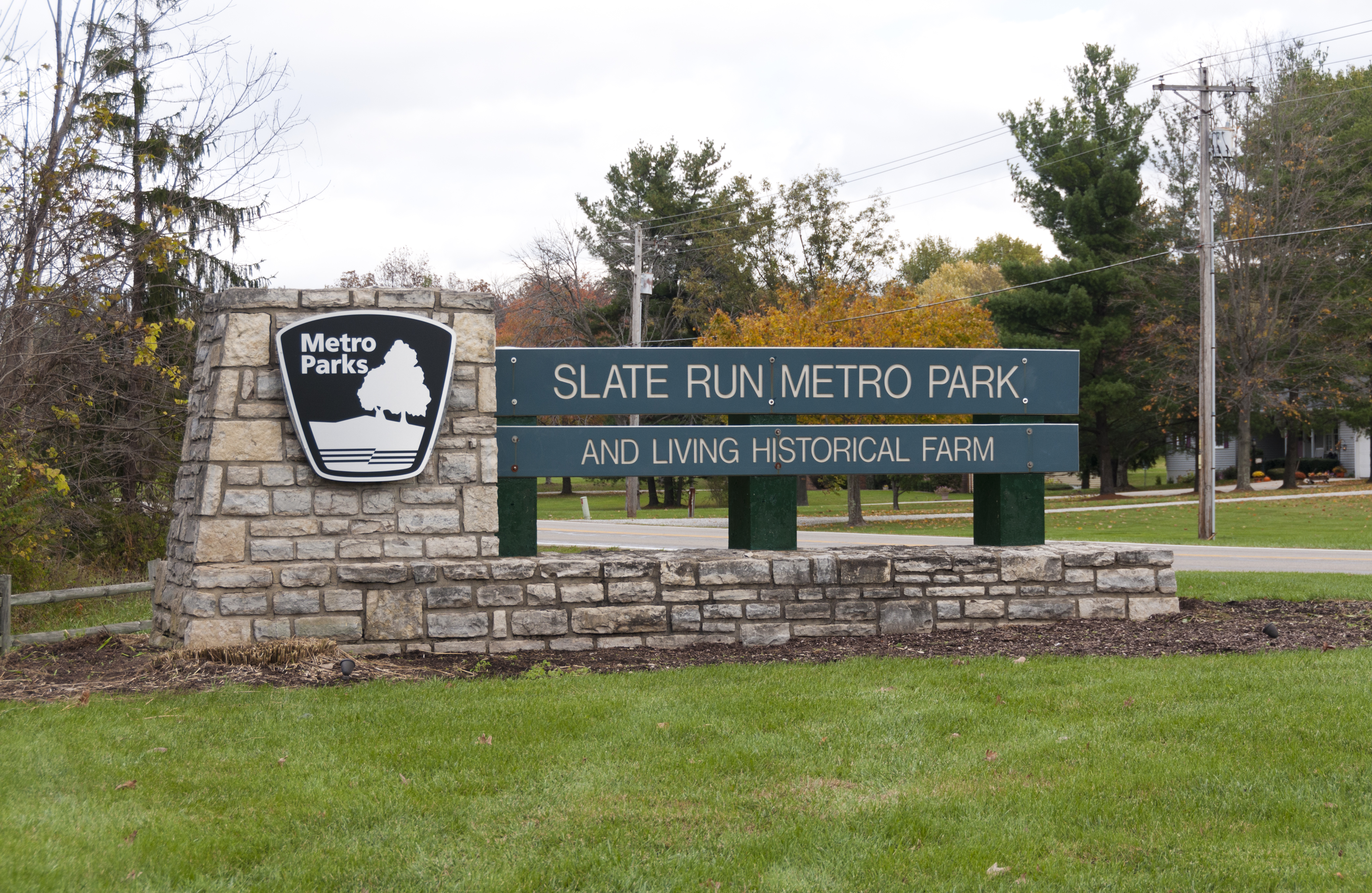 The entrance sign to Slate Run Metro Park and Living Historical Farm.